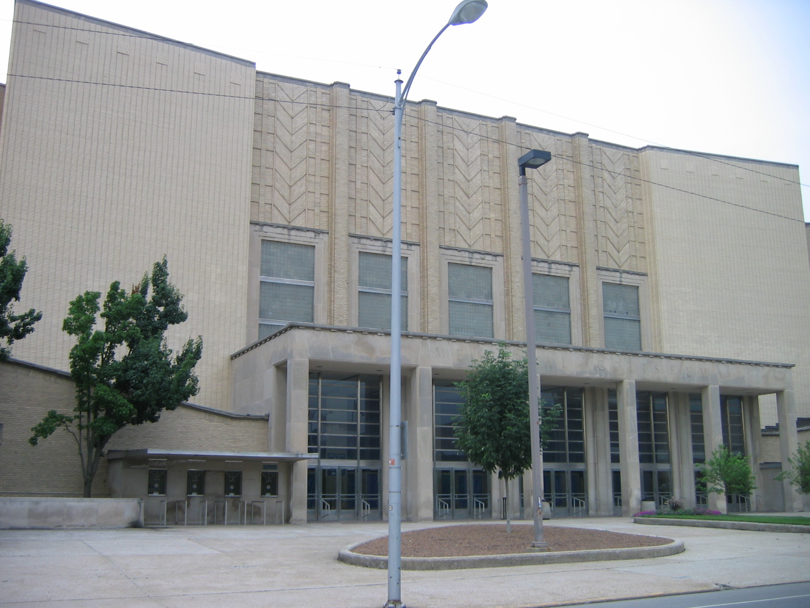 Football & Basketball Facilities U Kentucky Coliseum